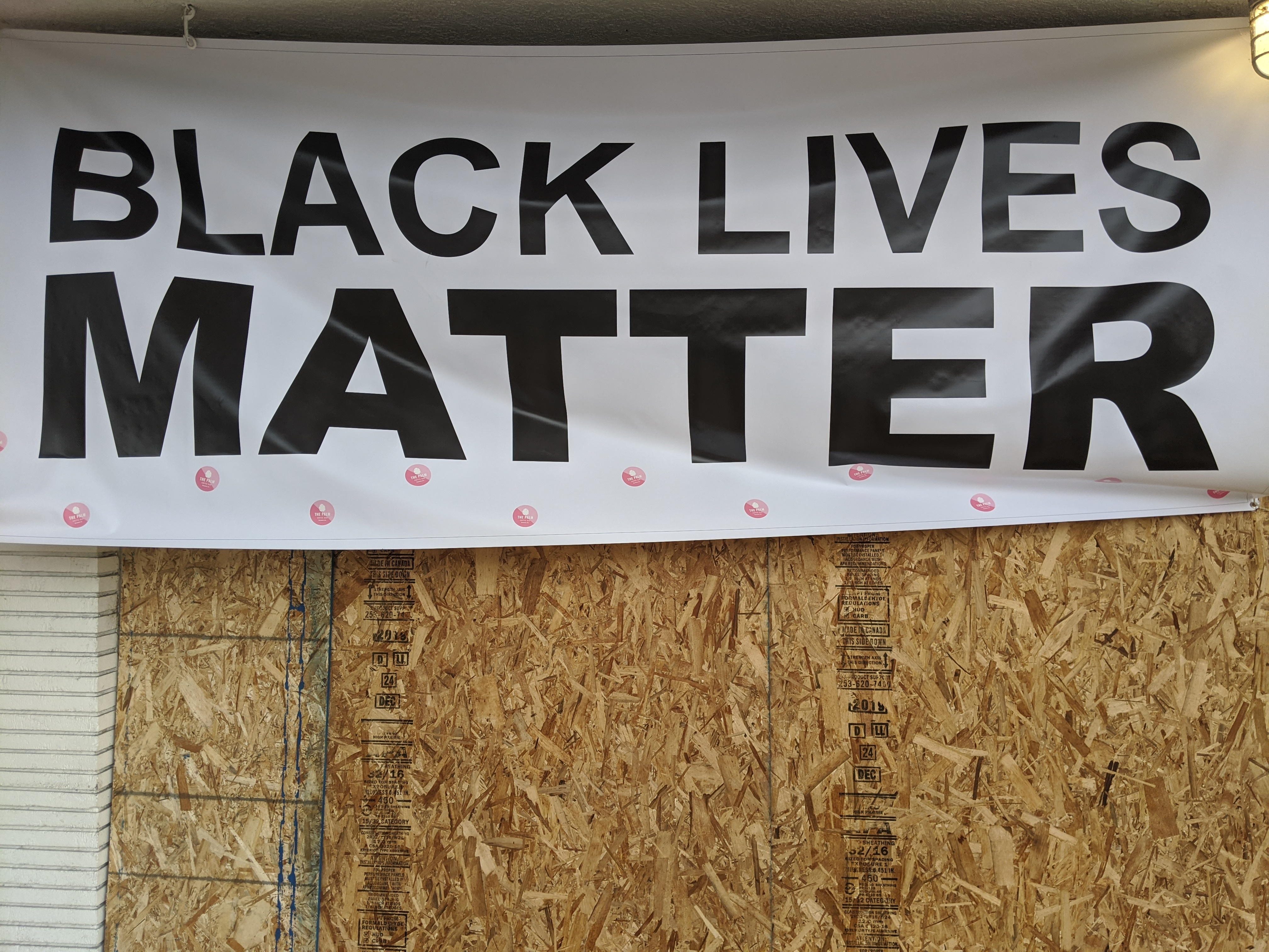 Black Lives Matter banner, coffee shop, Magnolia Park, Burbank, California, USA